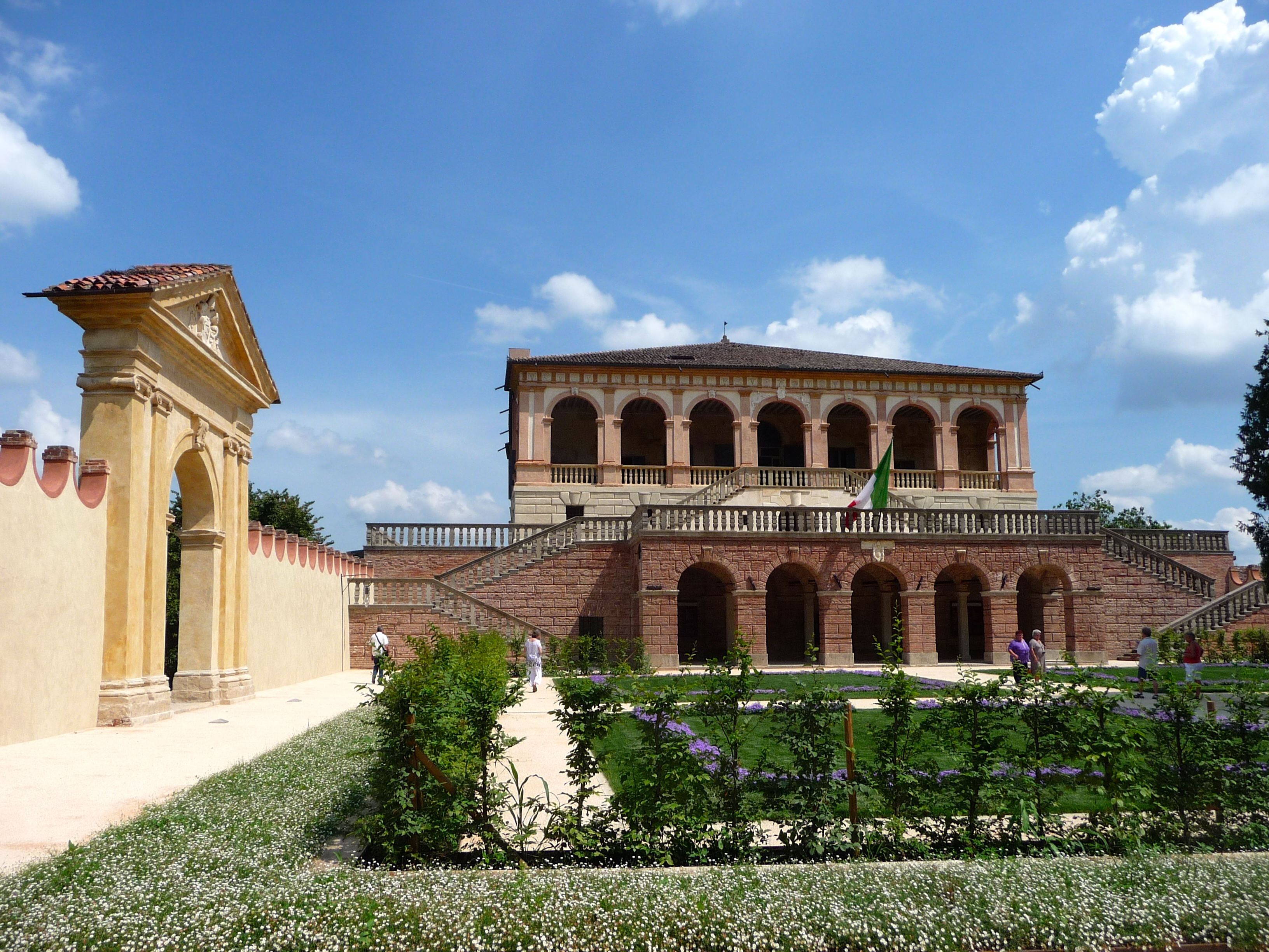 Villa dei Vescovi in Luvigliano of Torreglia (province of Padua), Italy.